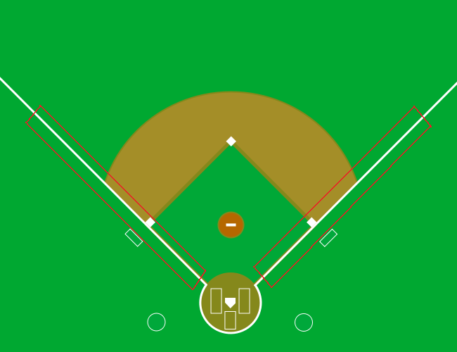 baseball field with its limitations